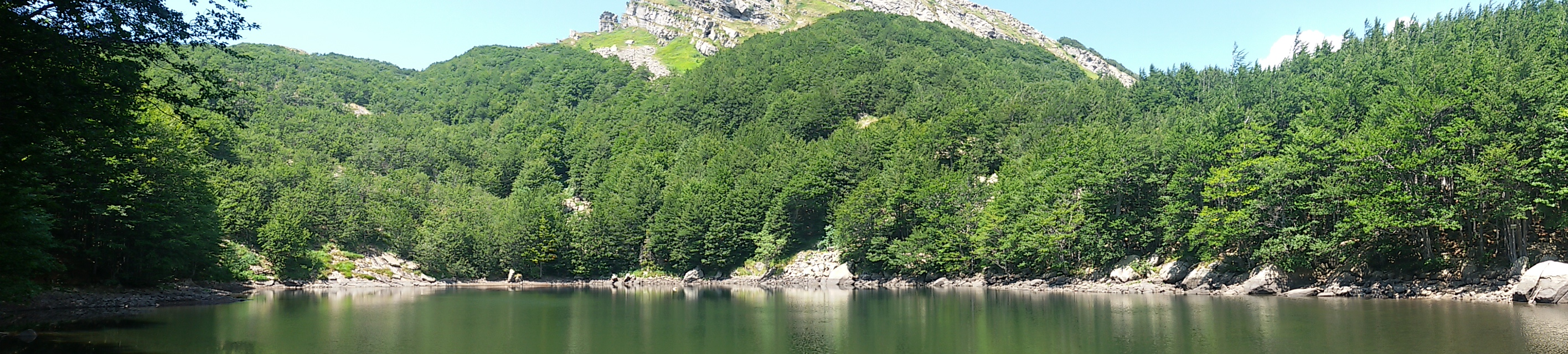 Dark Lake